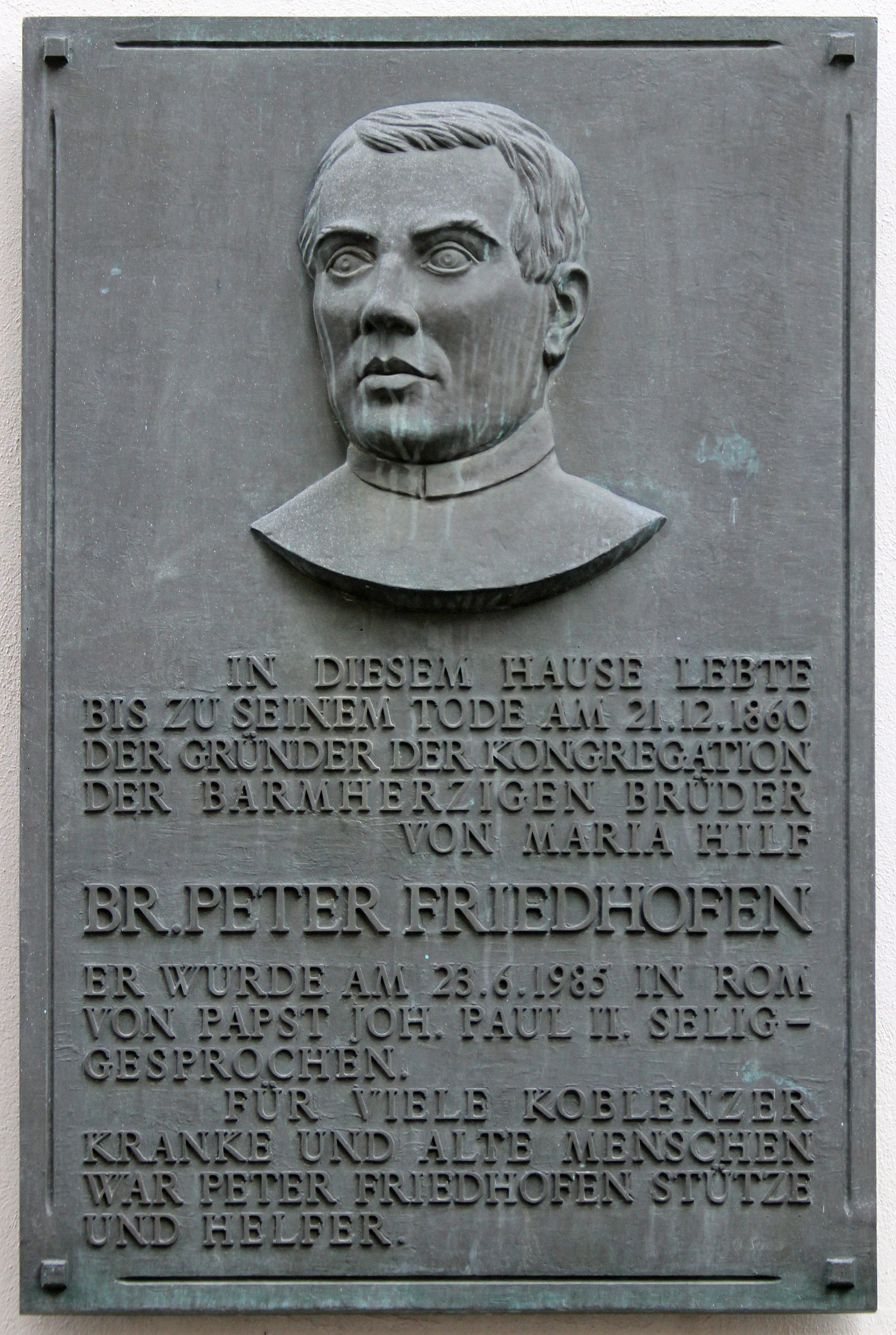 Plaque in memory of Peter Friedhofen in Koblenz